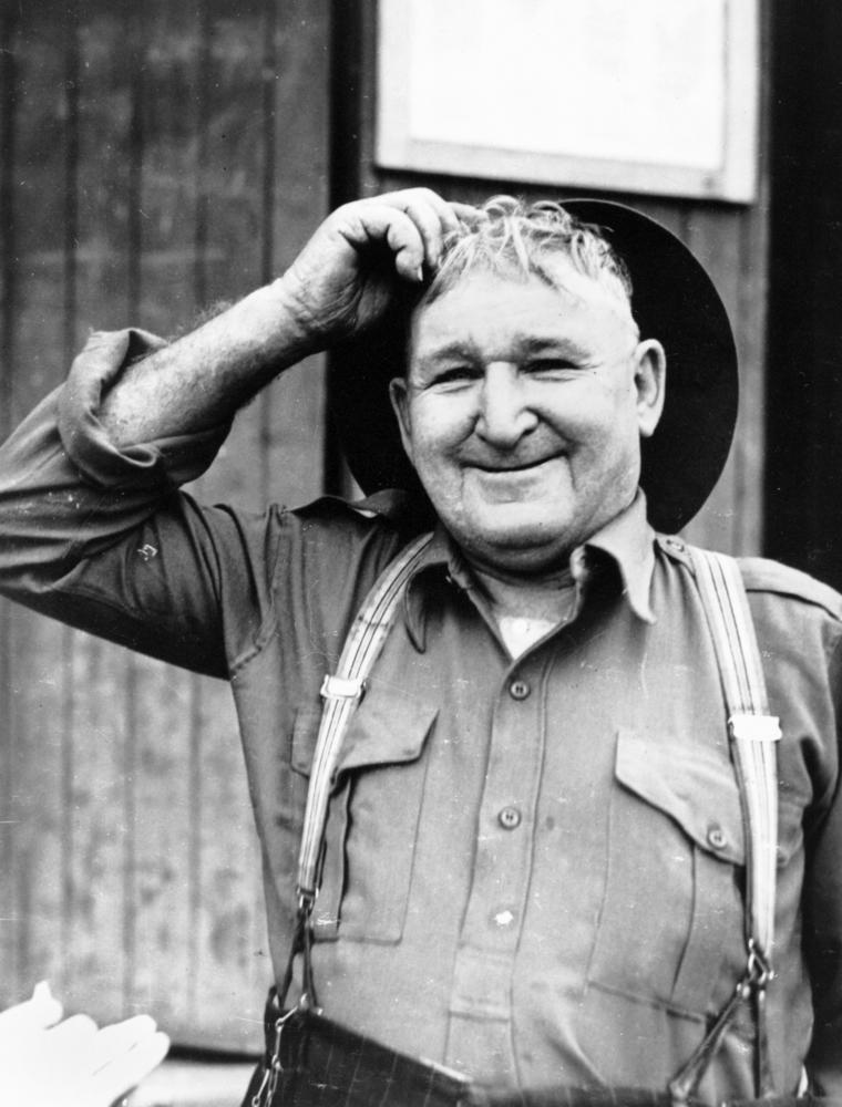 Joe Platen, foreman for M. R. Hornibrook Pty Ltd, ca. 1950. This photograph was taken at the under river tunnel, constructed by M. R. Hornibrok. (Description supplied with photograph).